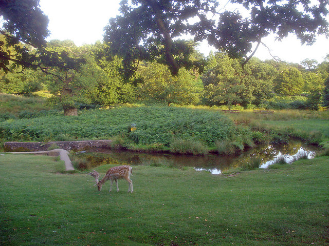 River Lin in Bradgate Park The river here snakes through the deer park and has several artificial pools. Bradgate Park is the most visited country park in Leicestershire.